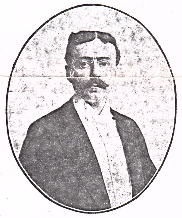 Earnst Albert Couturier pictured above his endorsement letter in the Summer 1909 edition of the Frank Holton Company's Harmony Hints